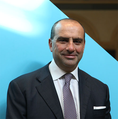 Giulio Gallazzi at the World Business Forum